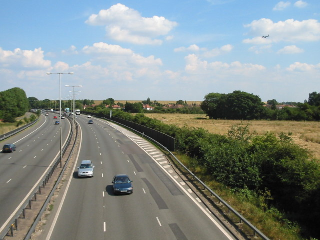 M4 Motorway, between Datchet and Langley. This square has suburban housing in Datchet in the south, and private grounds to a large computer company headquarters in the north. Through the middle runs the M4 Motorway - the stretch between Junctions 5 and 6 is said to be the busiest on its length.